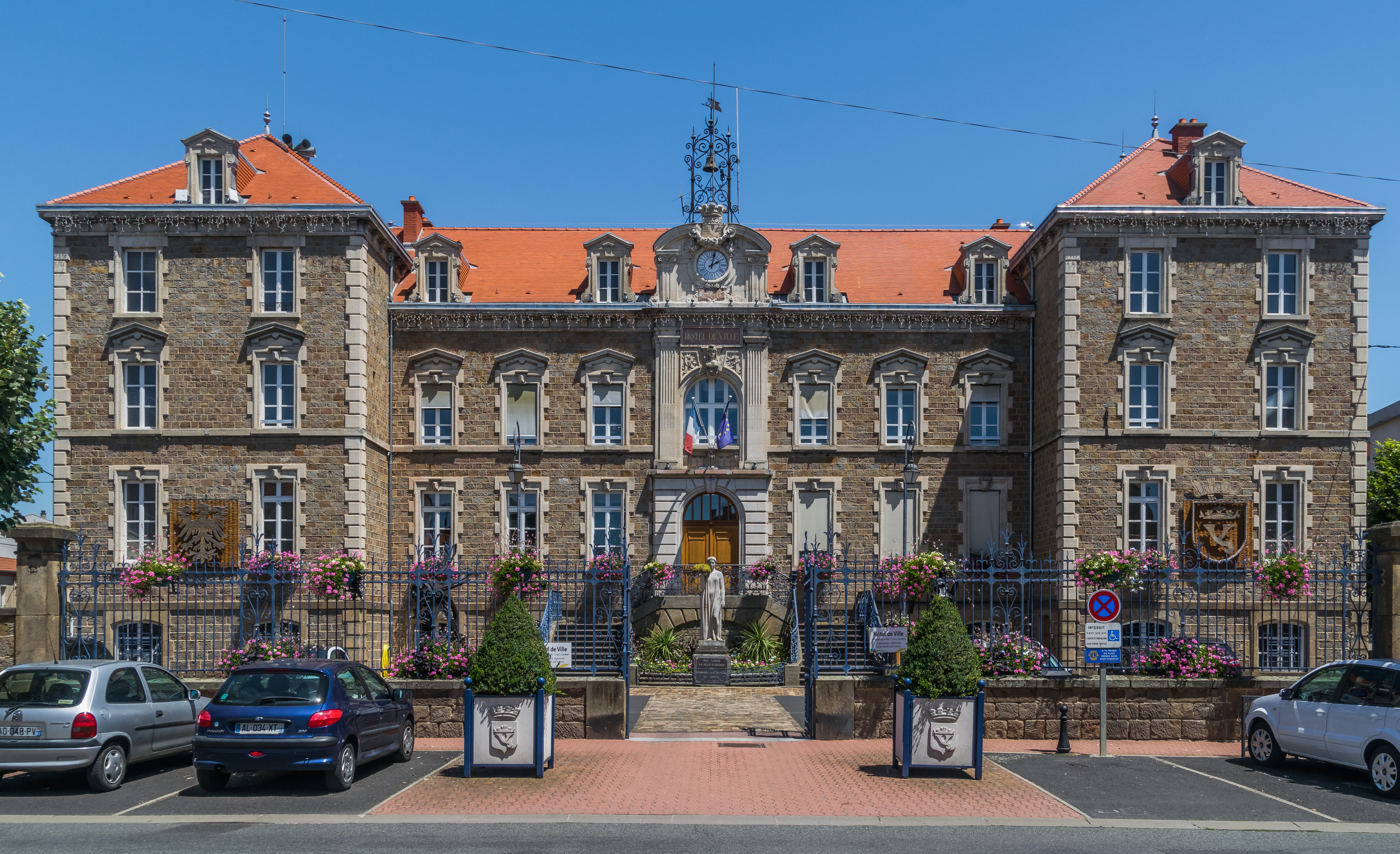 Town hall of Issoire, Puy-de-Dôme, France